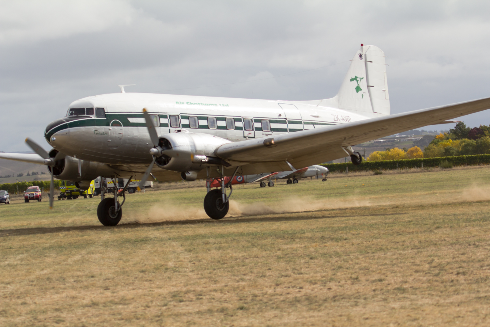 Classic Fighters 2015 - DC-3 ZK-AWP